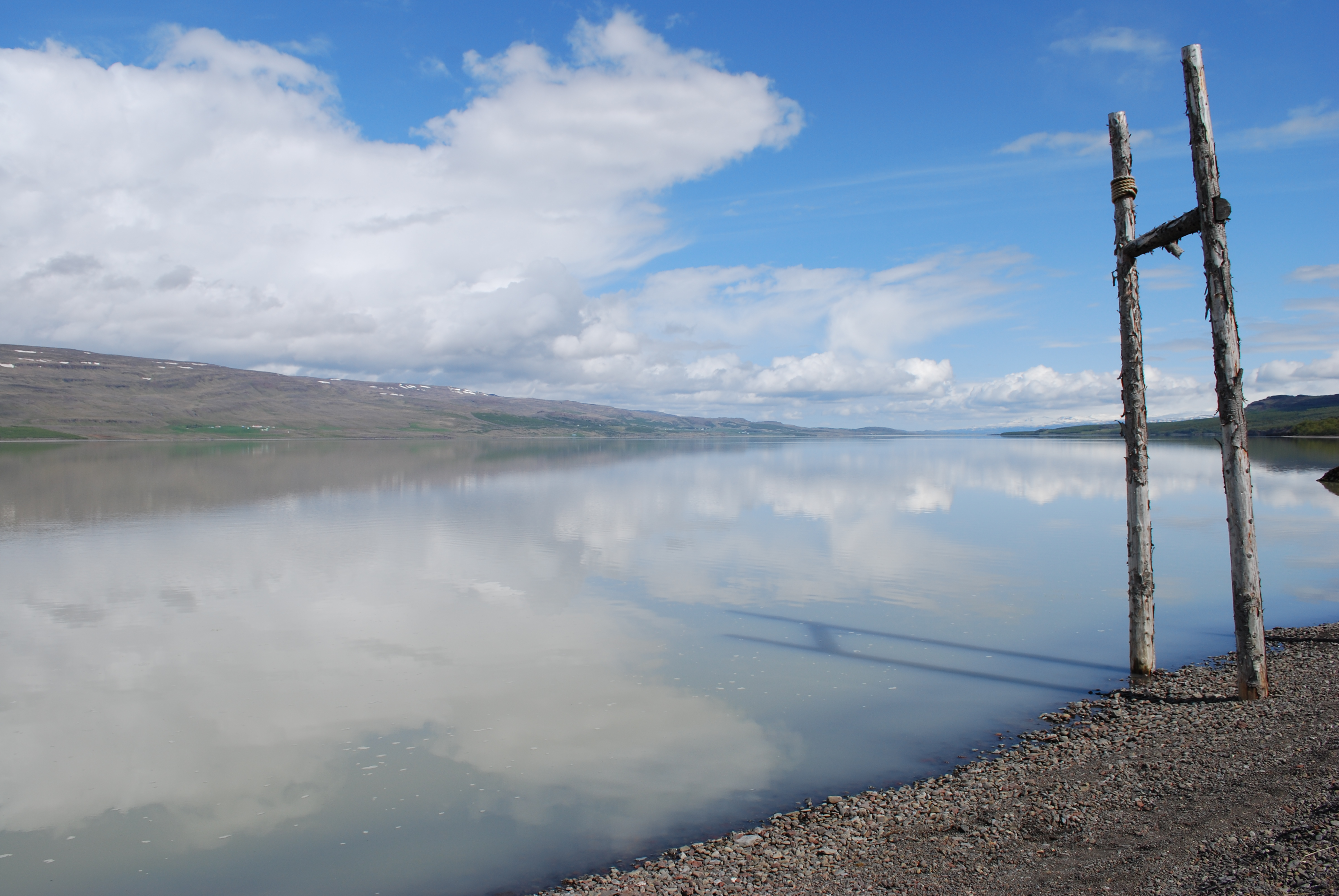 Egilsstaðir Keywords: Sea and water, Landscape, Nature, Iceland